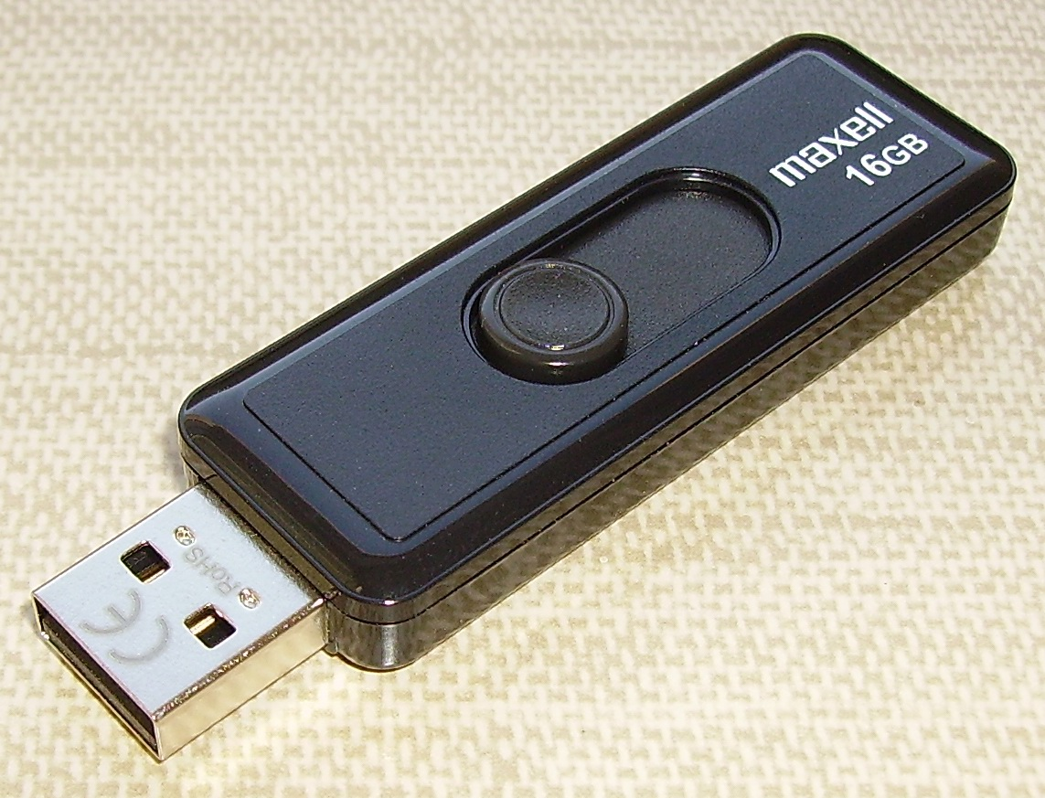 A 16 GB retractable Maxell Venture USB 2.0 flash drive, with red LED.